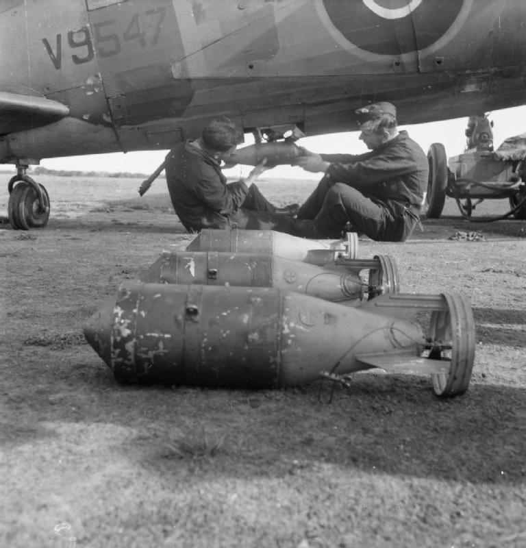 Royal Air Force Fighter Command, 1939-1945. Smoke floats being loaded onto the fuselage bomb carrier of Westland Lysander Mark IIIA, V9547 ‘BA-E’, an air-sea rescue aircraft of No. 277 Squadron RAF, at Hawkinge, Kent.